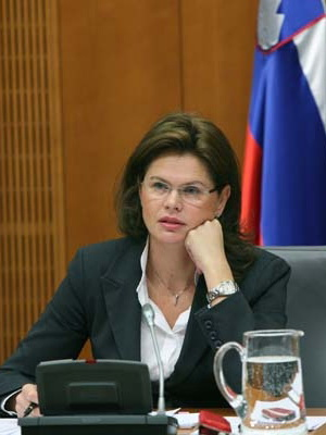 Alenka Bratušek